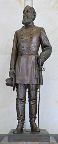 Statue of Edmund Kirby Smith at NSHC Bronze, Given by Florida in 1922, U.S. Capitol Visitor Center